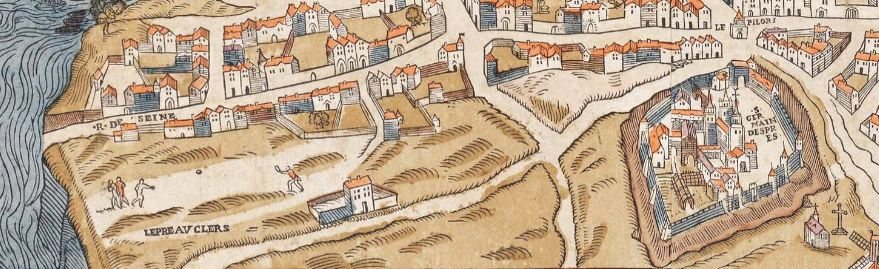 The Pre-aux-Clercs on the Plan de Truschet and Hoyau (1550). On the left (North), the Seine river. On the right the Saint-Germain-des-Près abbey.